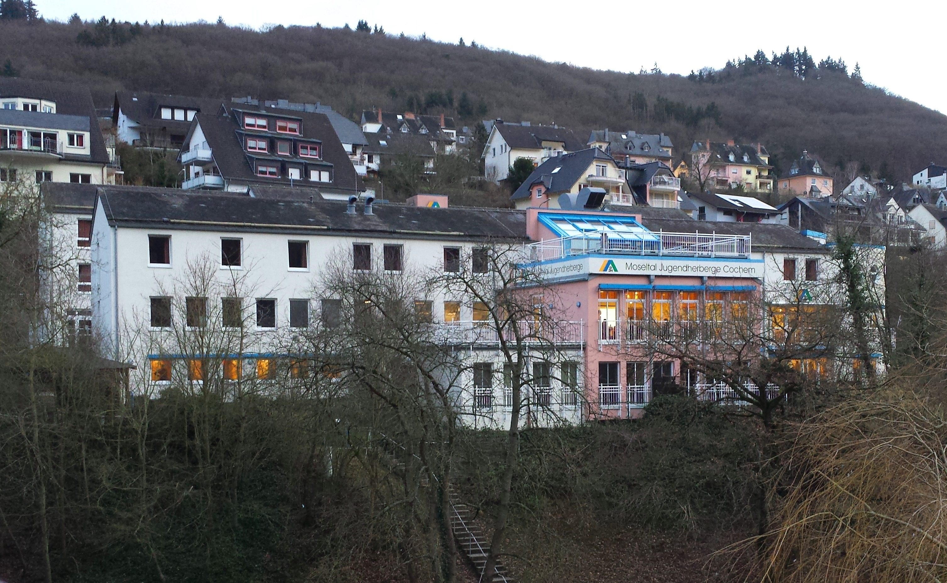 Youth hostel in Cochem-Cond